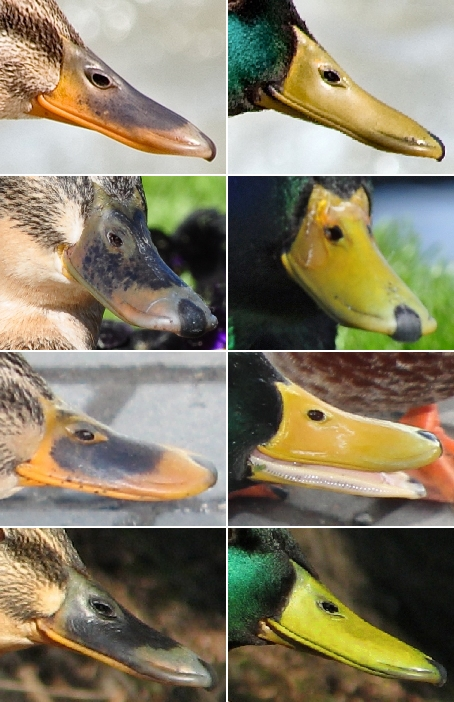 Anas platyrhynchos: beak-compare female-male